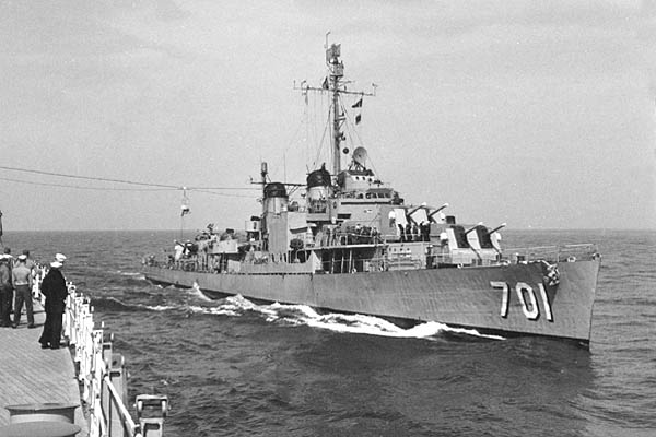 The U.S. Navy destroyer USS John W. Weeks (DD-701) during a highline transfer with the battleship USS Wisconsin (BB-64), in the 1950s.